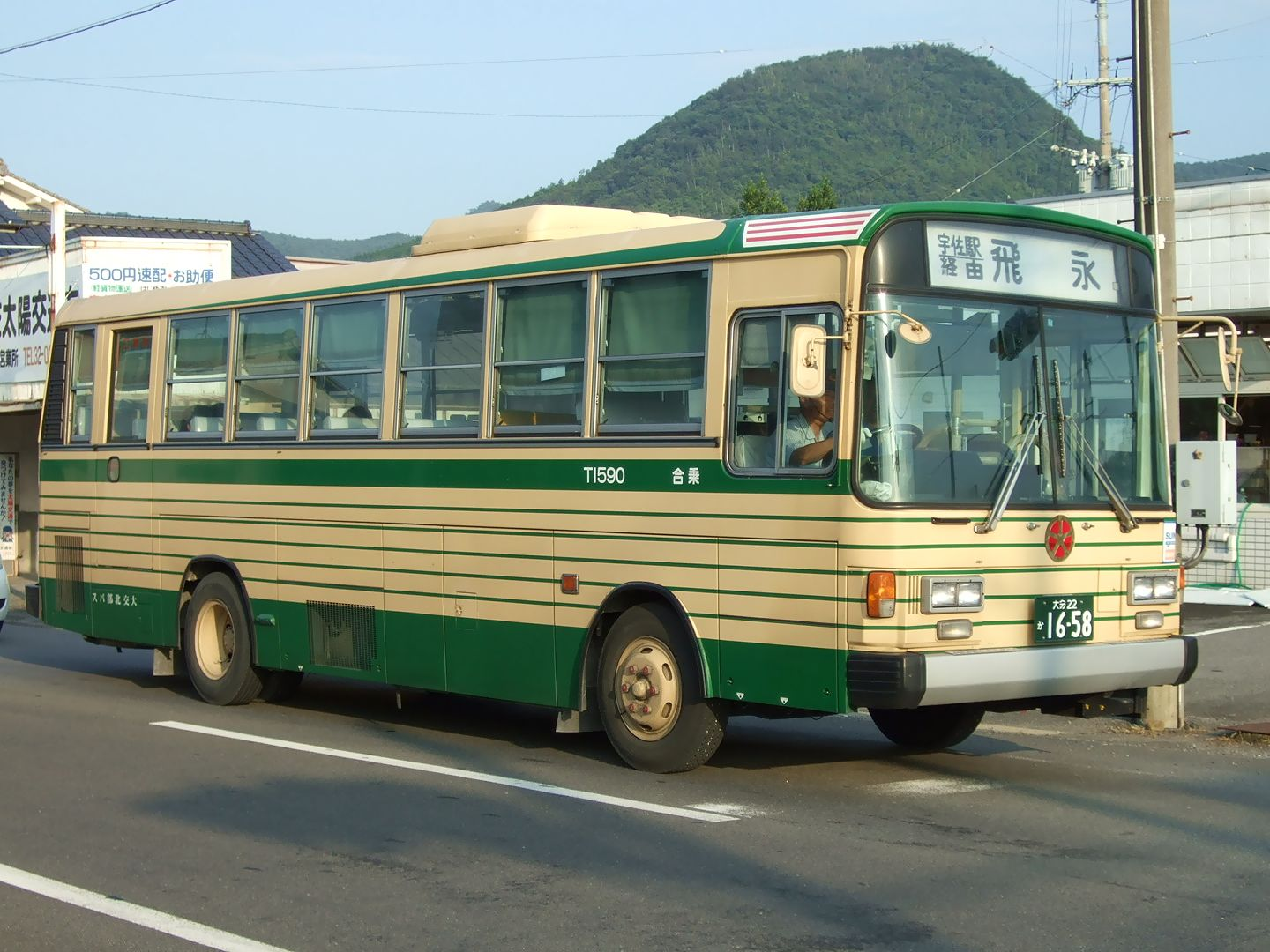 Company:Daiko Hokubu Bus Use:transit bus Belongs to:Takata Depot Car license:大分22 か 1658 Code:TI590 Chassis manufacturer:Isuzu Motors Coachbuilder:Fuji Heavy Industries Location:in Usa City, Oita, Japan.